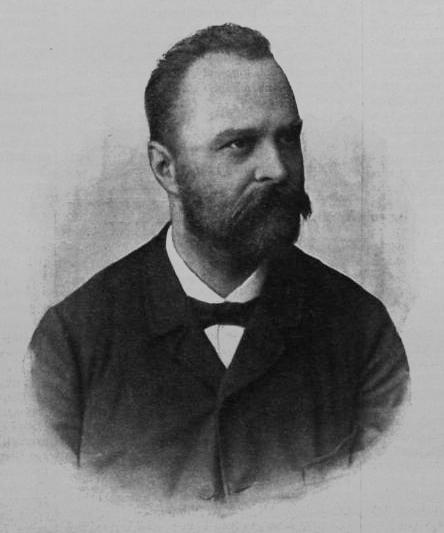 Portrait of Vilmos Schulek